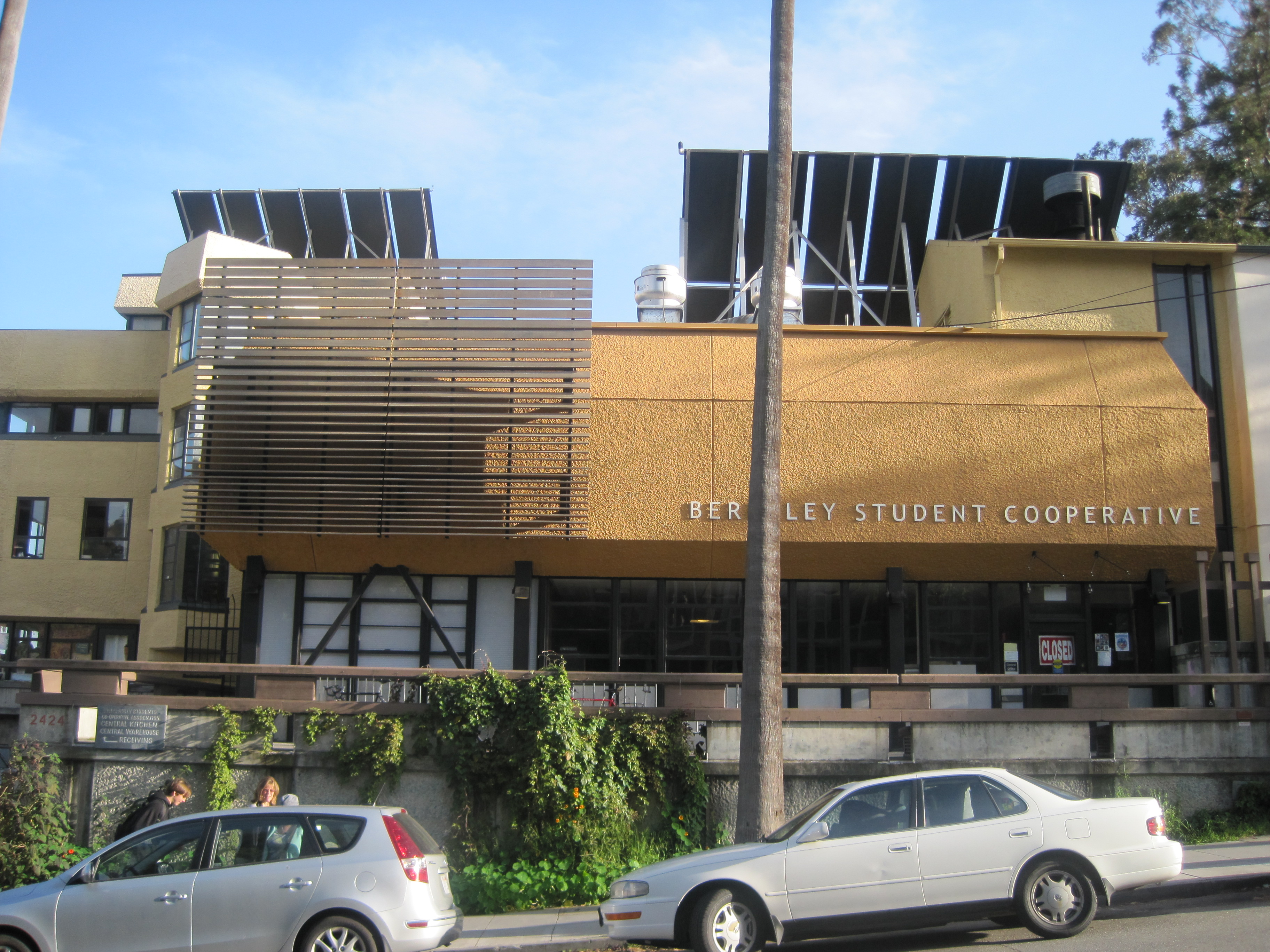 Casa Zimbabwe, one the houses in the Berkeley Student Cooperative, in Berkeley, California.